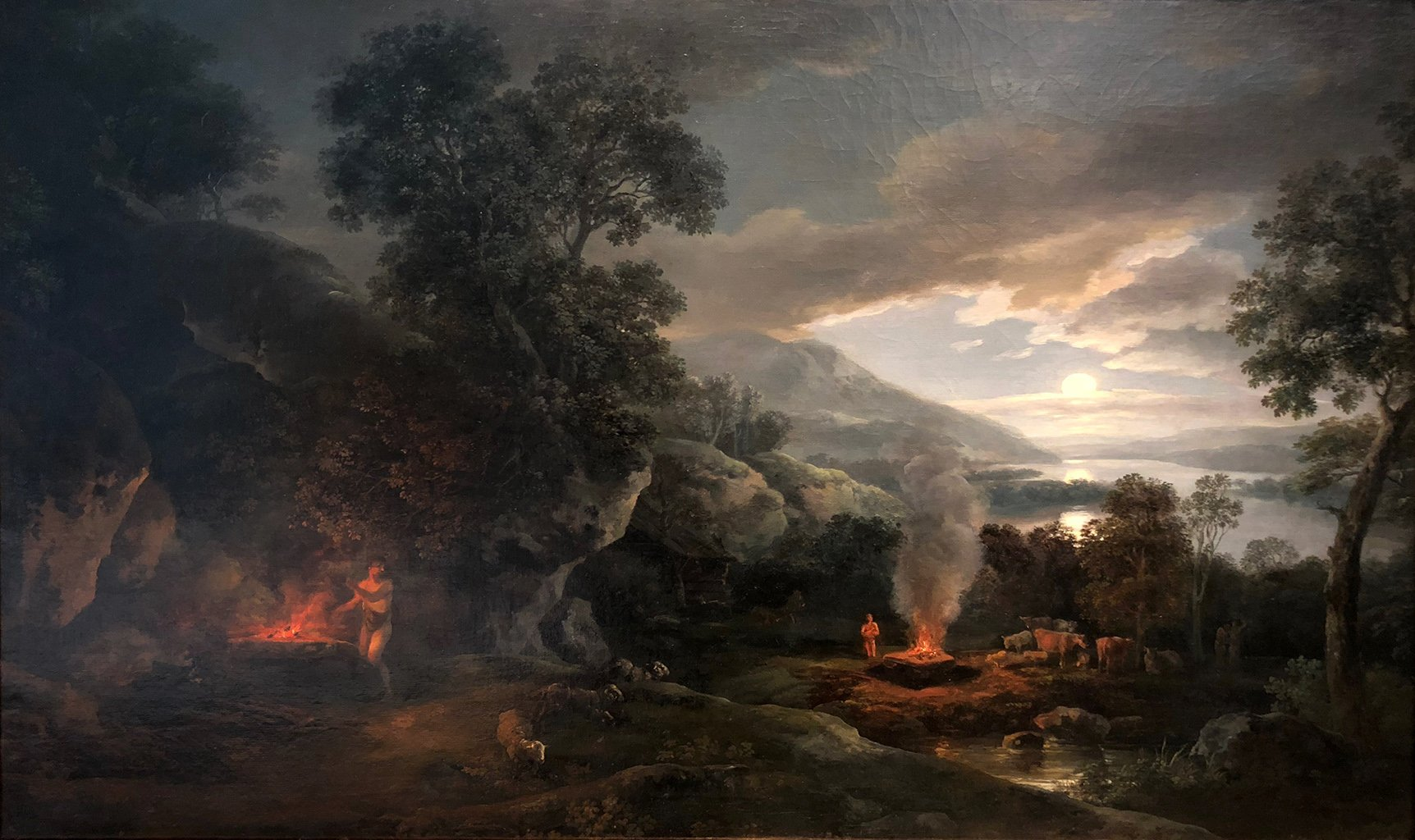 Cain And Abel Bringing Their Sacrifices (n.d.) by Claude-Joseph Vernet (1714-1789), Crocker Art Museum, Sacramento